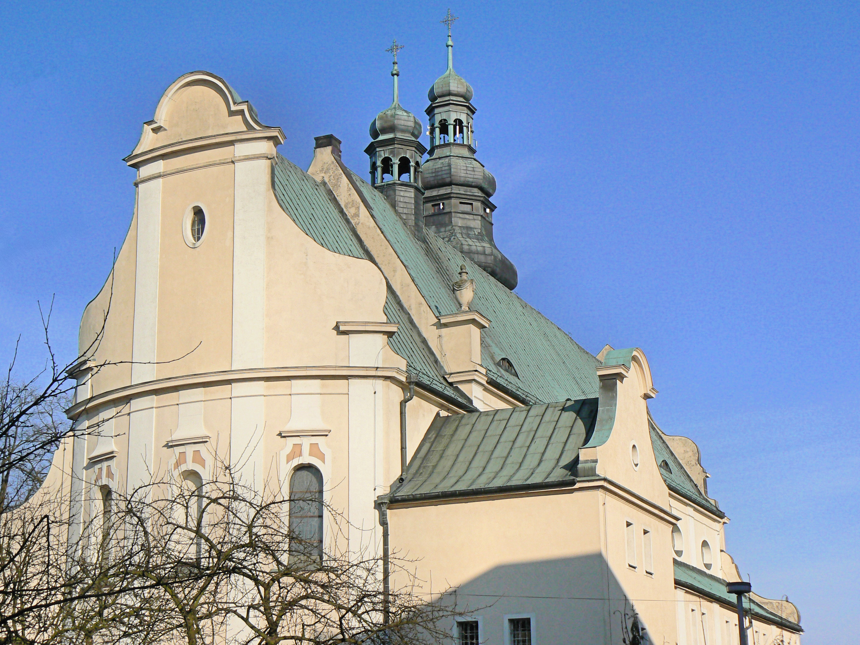 Jan Chrzciciel's Church - back view